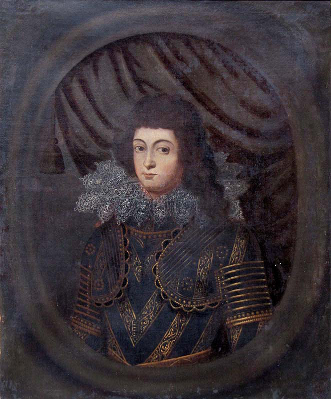 Portrait of Francesco Gonzaga Nevers.